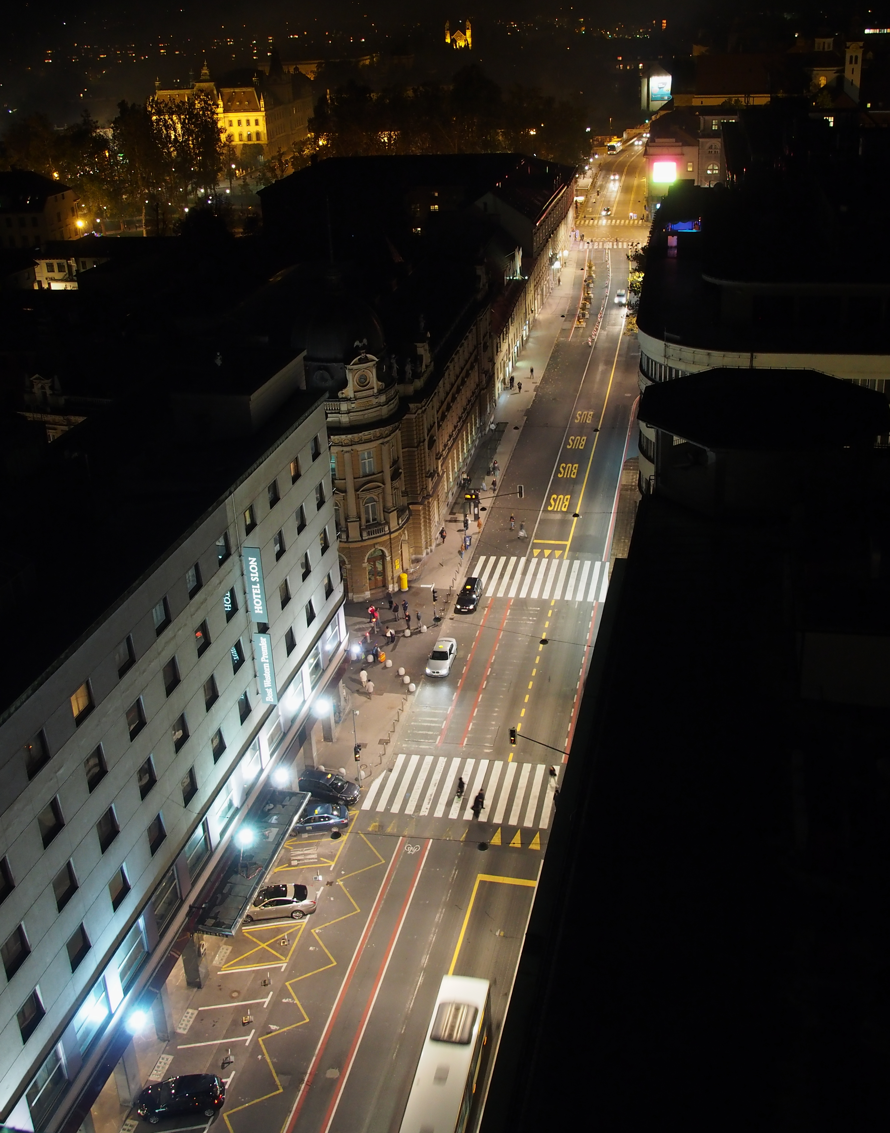 Slovenska cesta from Nebotičnik tower. Ljubljana, Slovenija